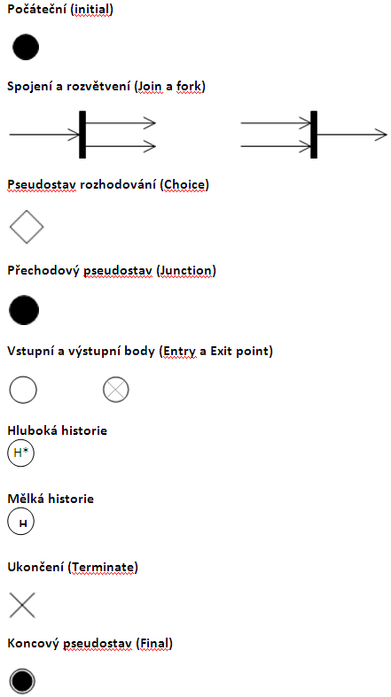 Pseudostates